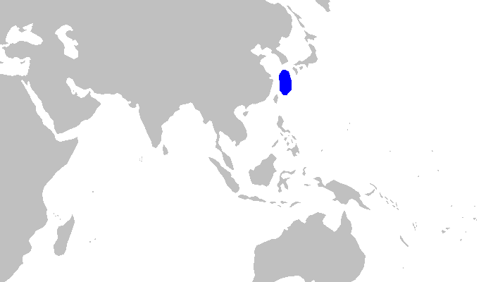 Distribution map for Apristurus pinguis